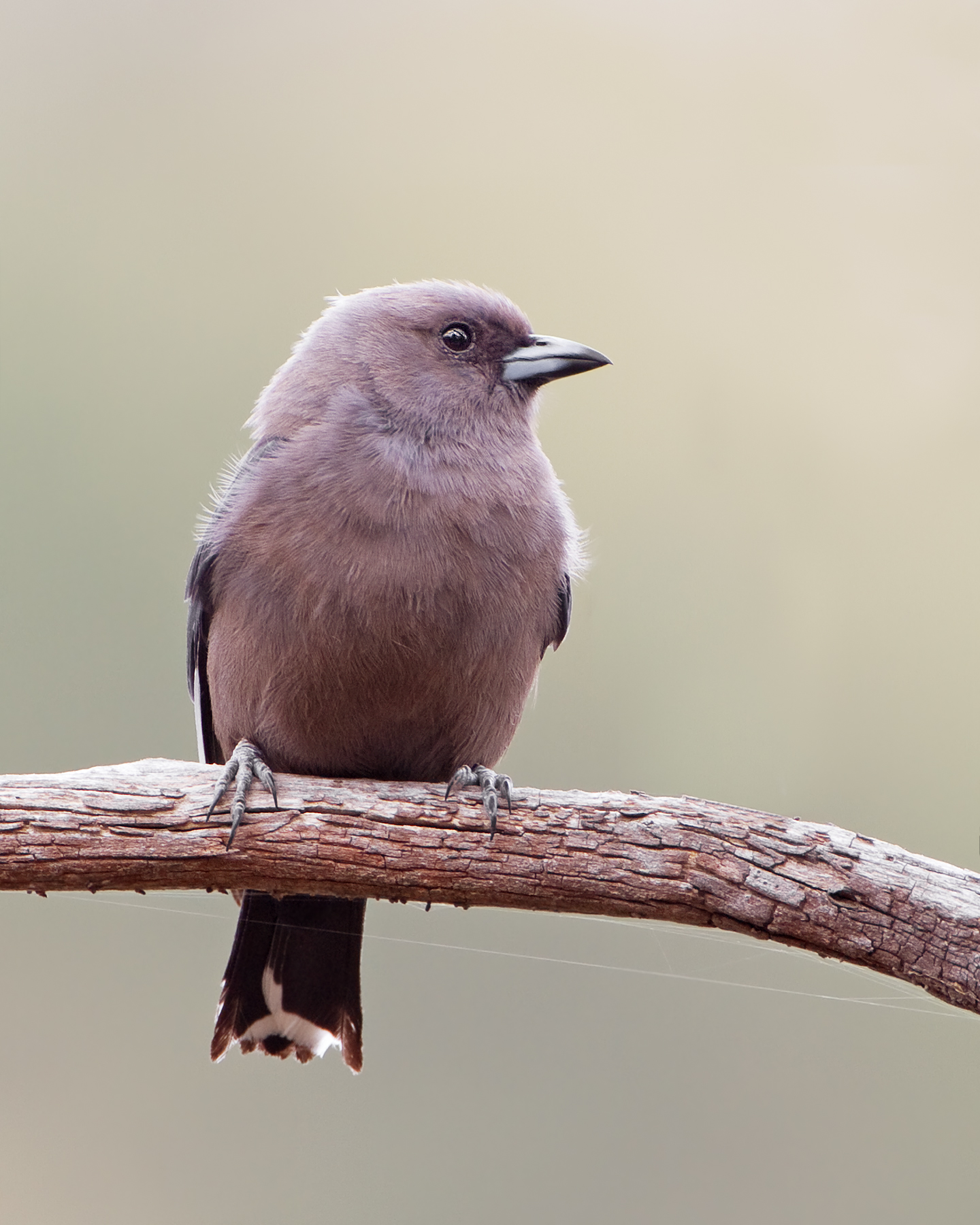 Dusky Woodswallow (Artamus cyanopterus), Risdon Brook Park, Tasmania, Australia